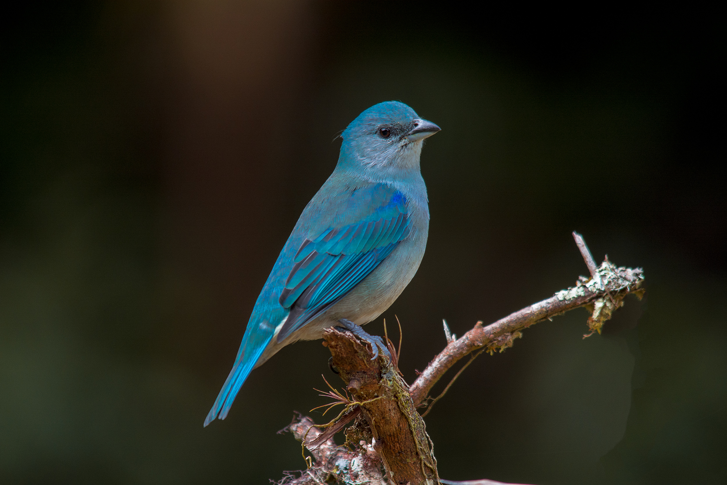 Azure-shouldered tanager (Thraupis cyanoptera) at the Toucan Trail, Tapiraí, SP, Brazil